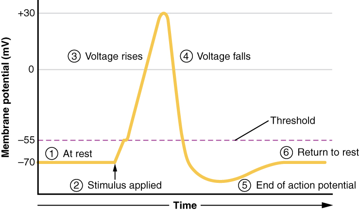 Version 8.25 from the Textbook OpenStax Anatomy and Physiology Published May 18, 2016